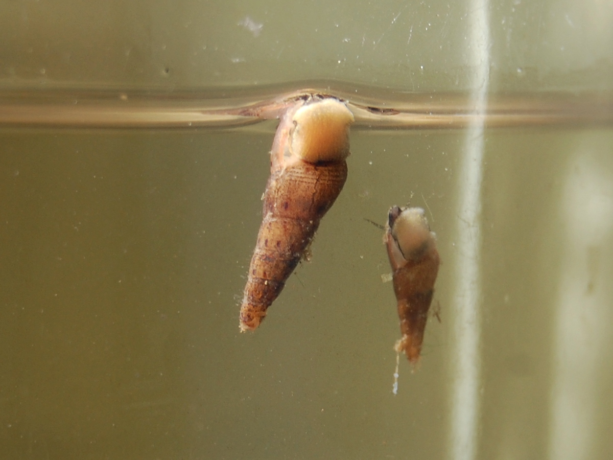 Sulcospira testudinaria juvenile, the largest one is ca. 21 mm height. From Ciliwung River, Bogor, West Java, Indonesia.